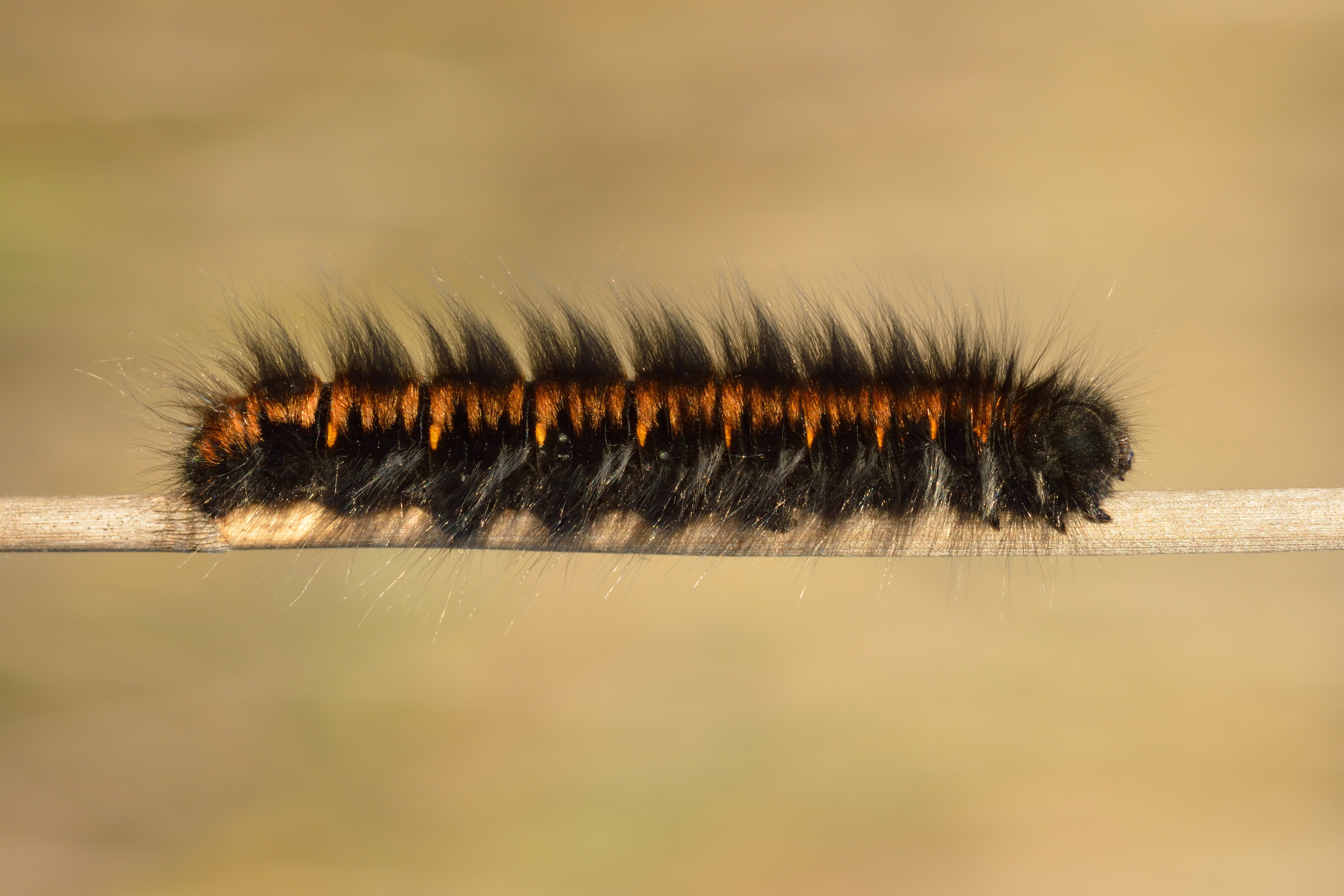 Caterpillar of fox moth (Macrothylacia rubi). Niitvälja bog, Northwestern Estonia.